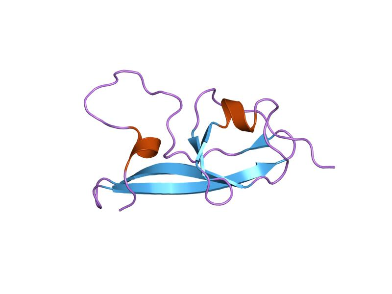 Cartoon representation of the molecular structure of protein registered with 1g4g code.